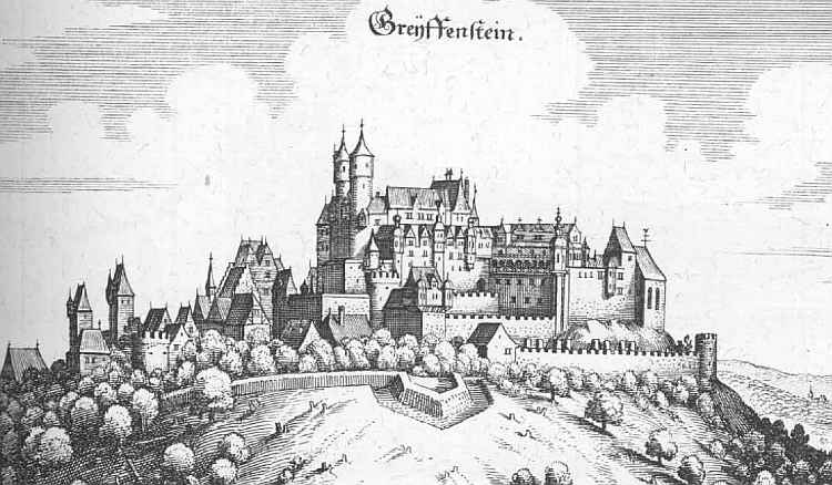 This is a scan of the historical document: Title: Greifenstein - Topographia Hassiae language: german